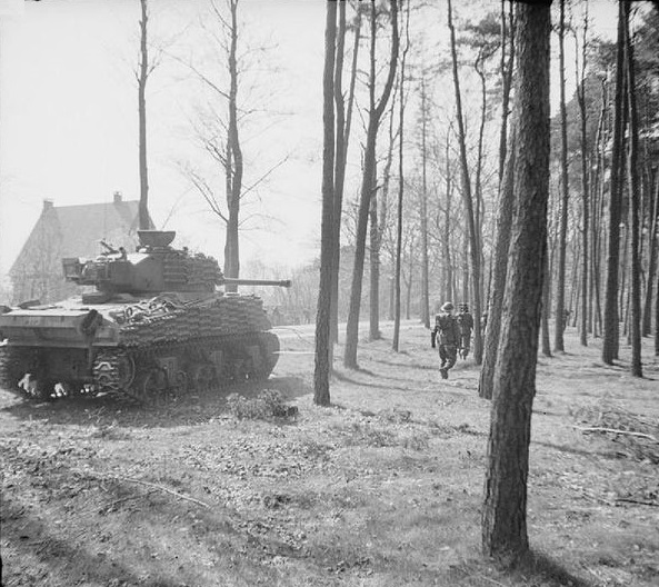 The British Army in North-west Europe 1944-45 A Sherman Firefly of 5th Canadian Armoured Division assists troops of 11th Royal Scots Fusiliers, 49th (West Riding) Division to clear the Germans from Ede, 17 April 1945.